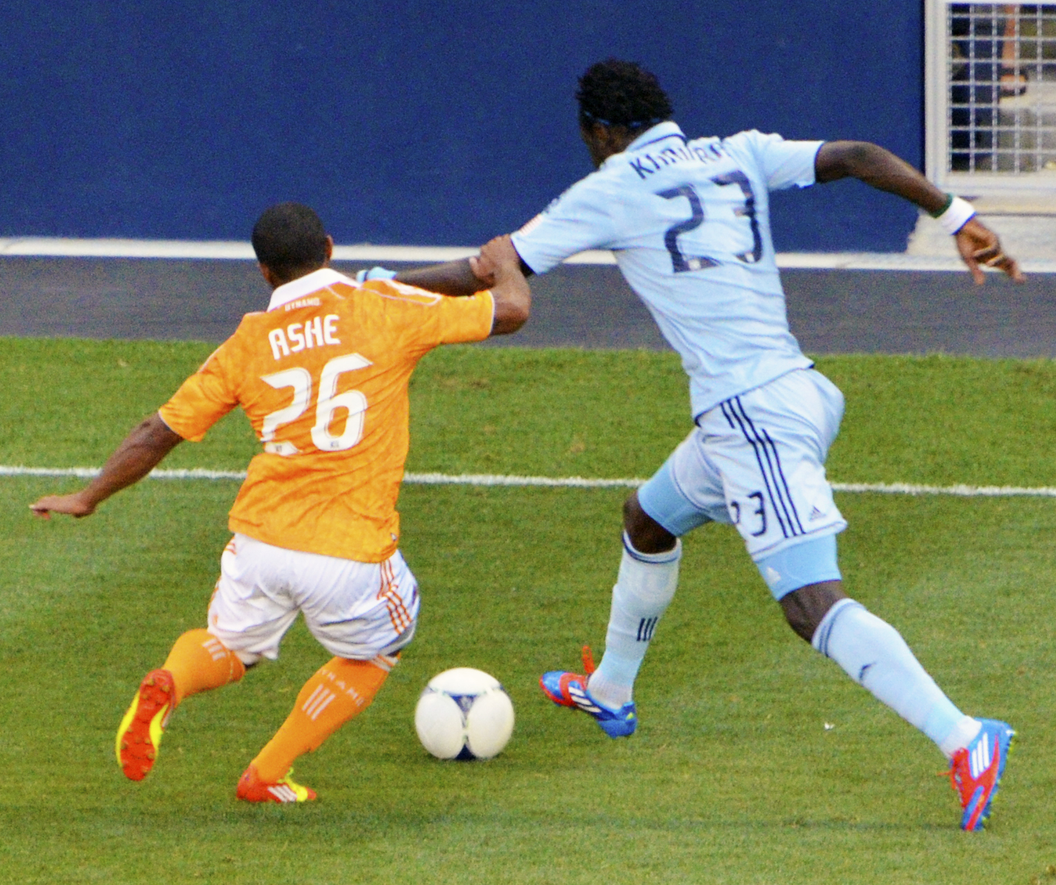 Corey Ashe of the Houston Dynamo's defending against Sporting KC forward Kei Kamara on July 7th, 2012 in Kansas City, Kansas.